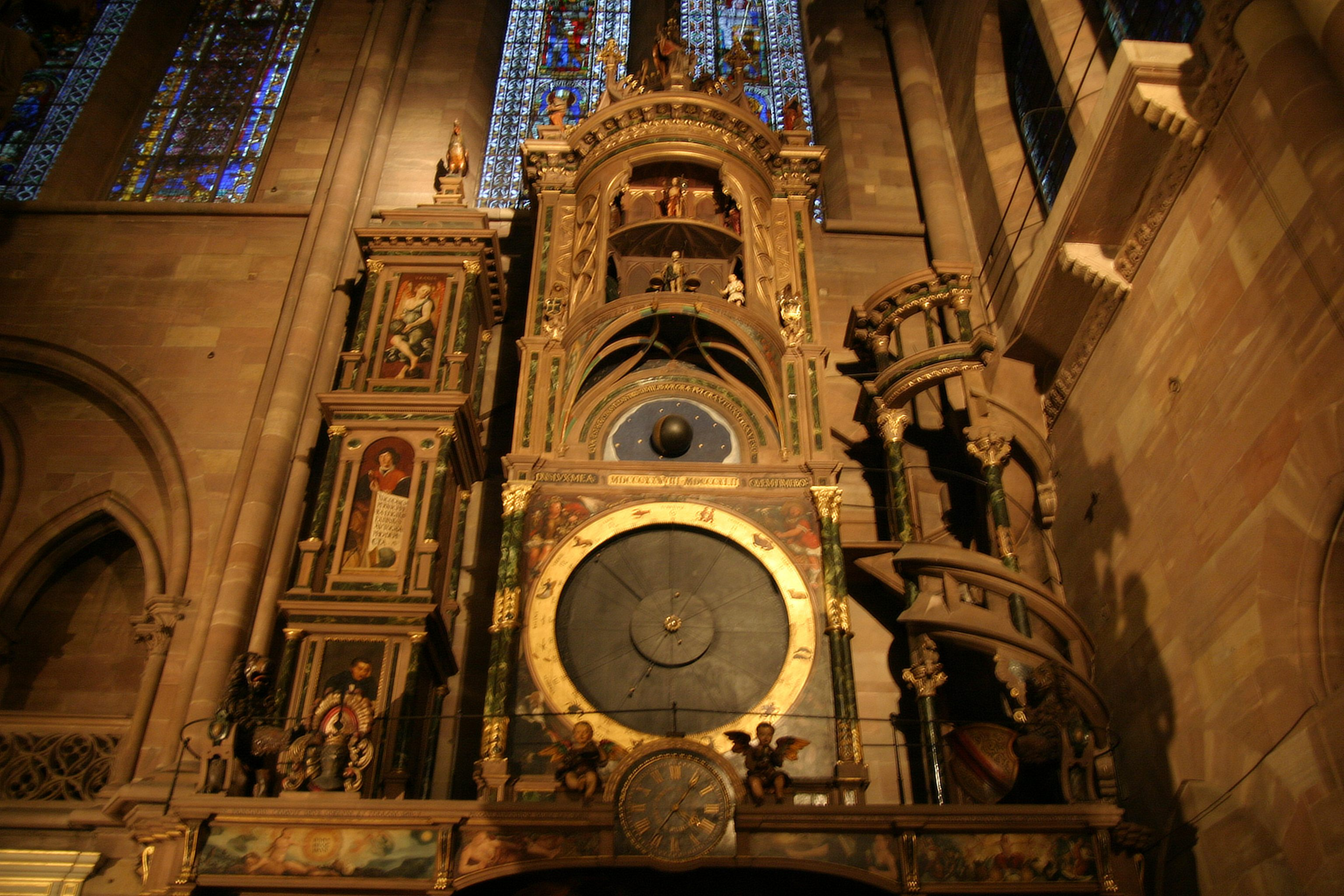 Astronomical clock in Strasbourg Cathedral, Strasbourg.